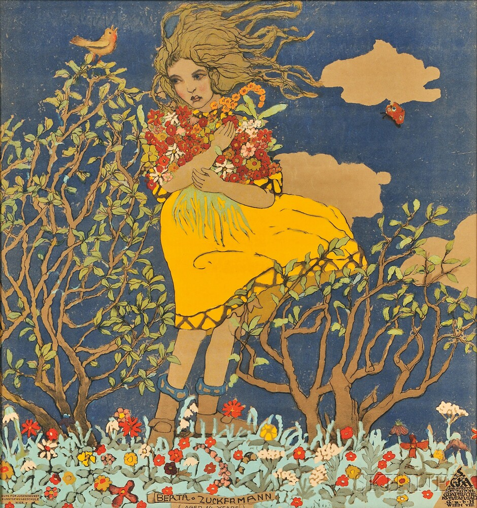 A painting by copied from Cizek, by his student, Berta Zuckermann (aged 14)